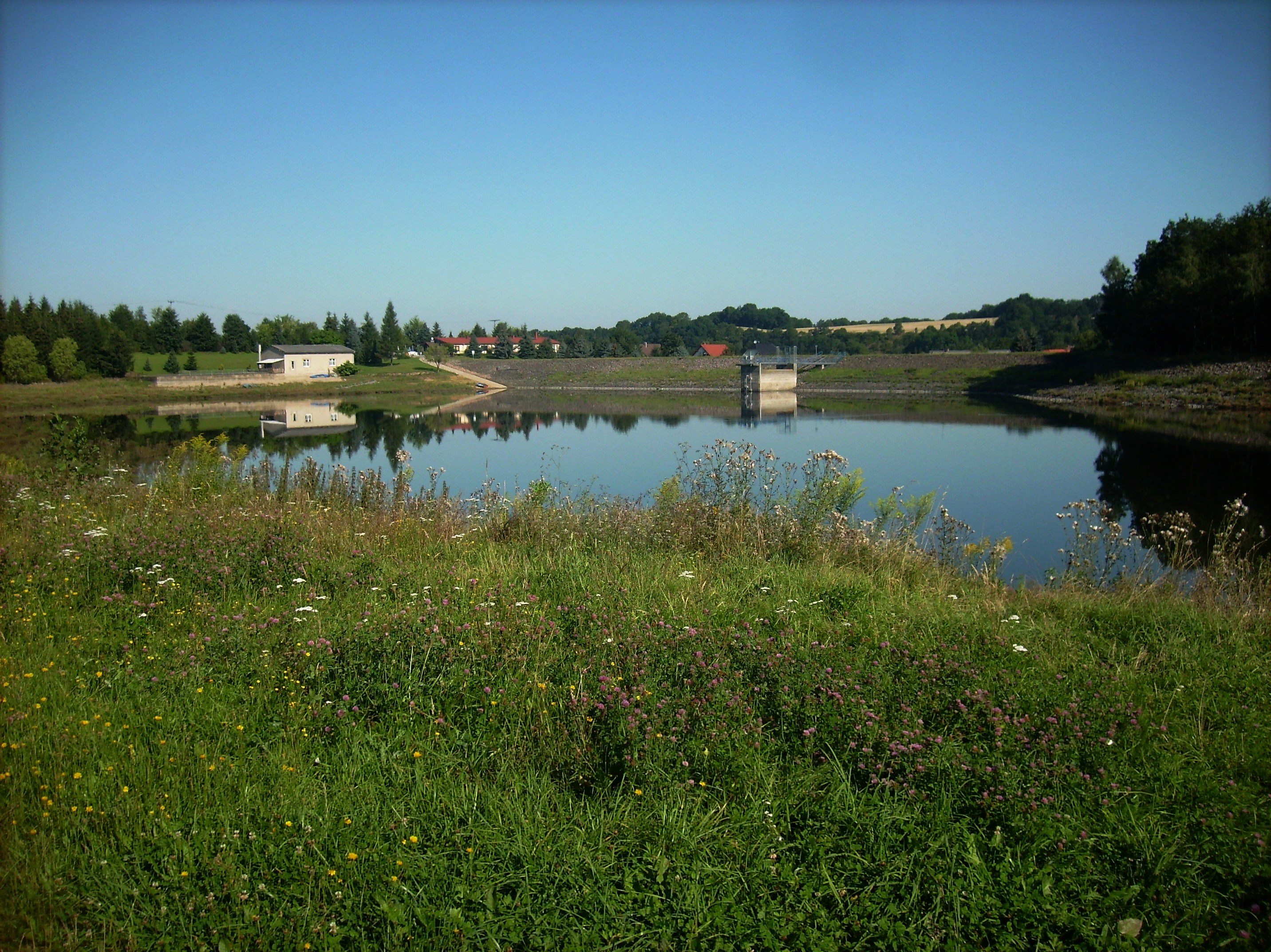 Baderitz Reservoir (Zschaitz-Ottewig, Mittelsachsen district, Saxony)